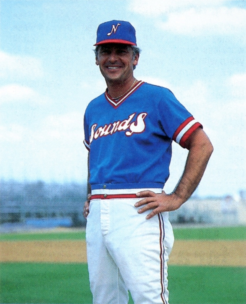 Manager Doug Holmquist of the 1983 Nashville Sounds Minor League Baseball team of the Southern League